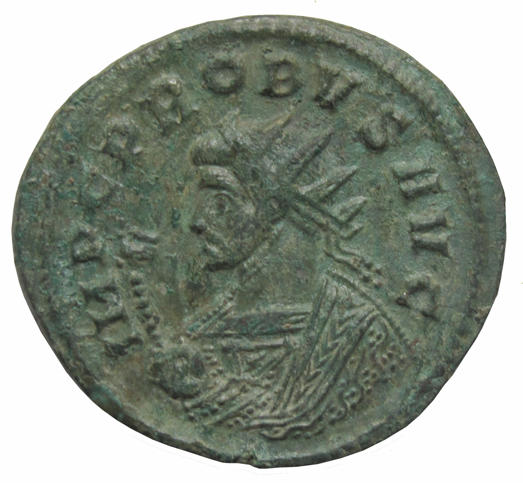 A radiate of the Emperor Probus, from the Bredon Hill Hoard